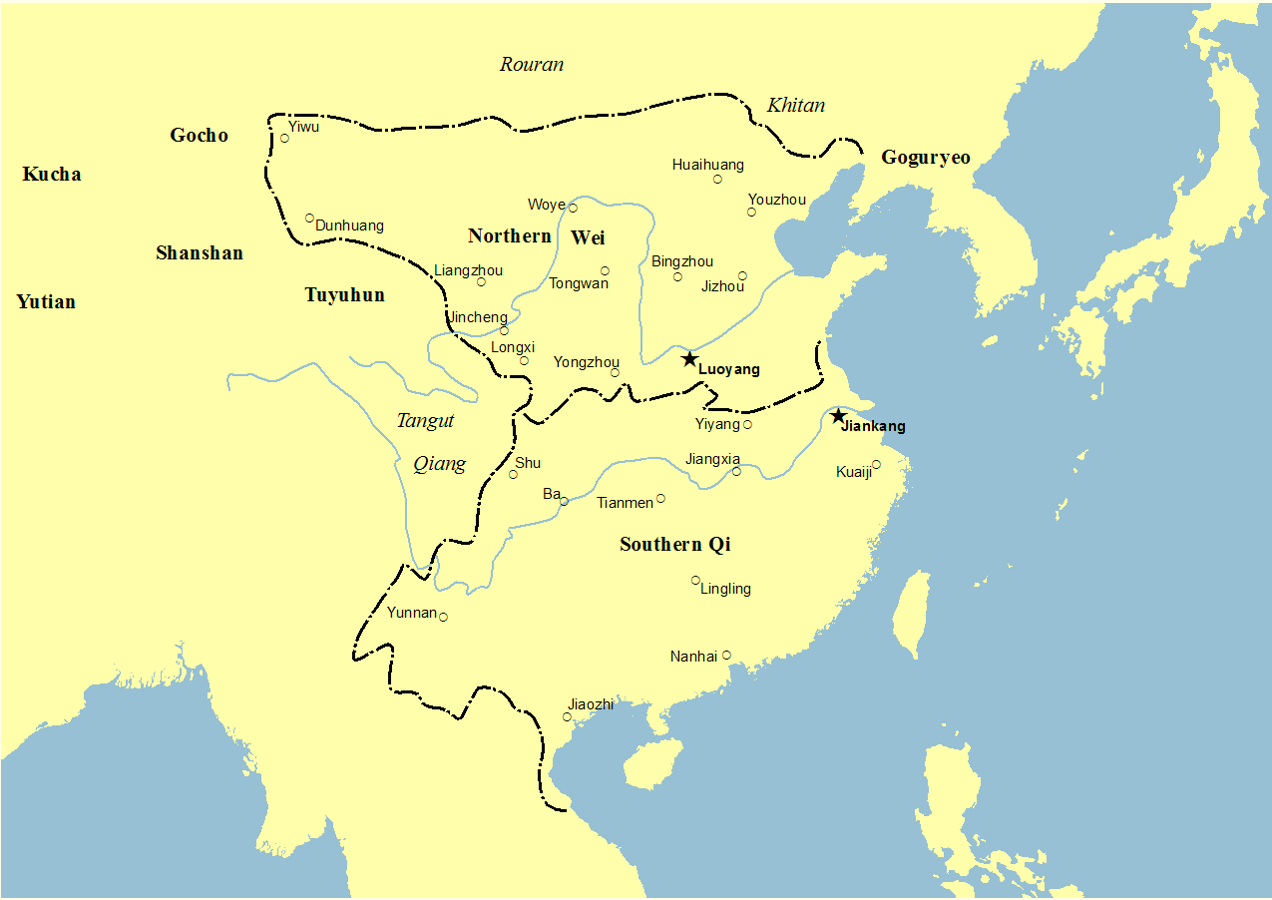 Map showing Northern Wei and Southern Qi